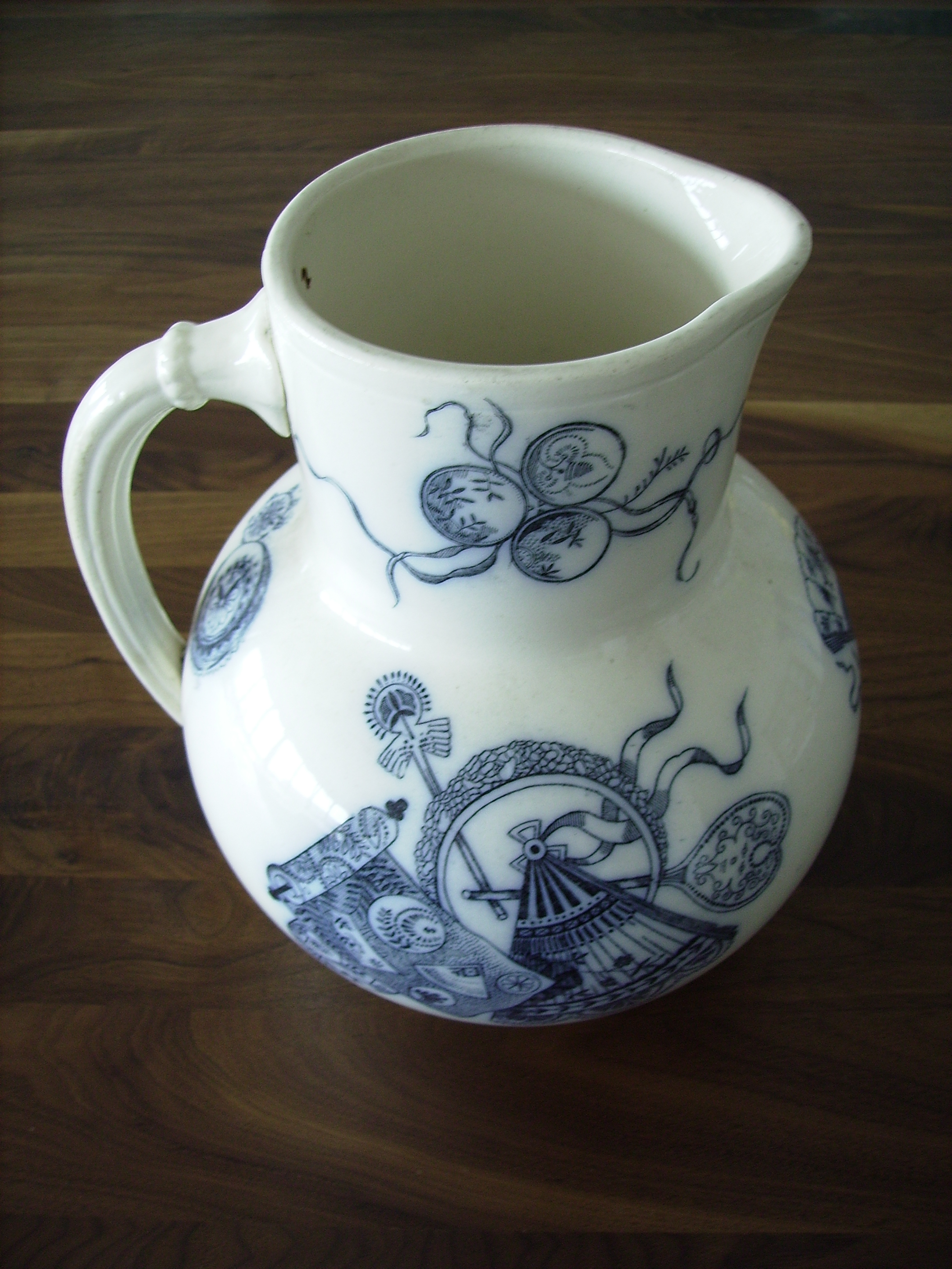 Earthenware jug from the Regout factory in Maastricht (The Netherlands) from the 19th century.